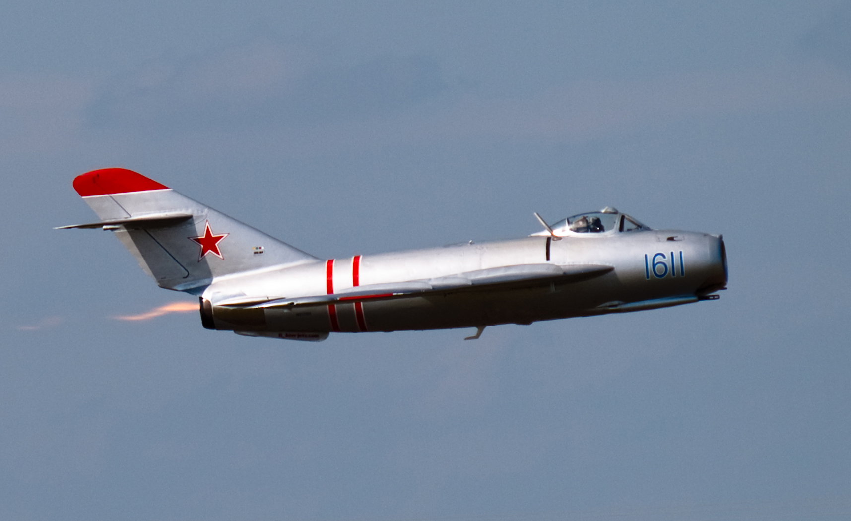 The Mikoyan-Gurevich MiG-17 "Fresco", cn 1C1611 (N217SH), in flight at Fort Worth Alliance Air Show 2008, Fort Worth Alliance Airport (IATA: AFW, ICAO: KAFW, FAA LID: AFW)